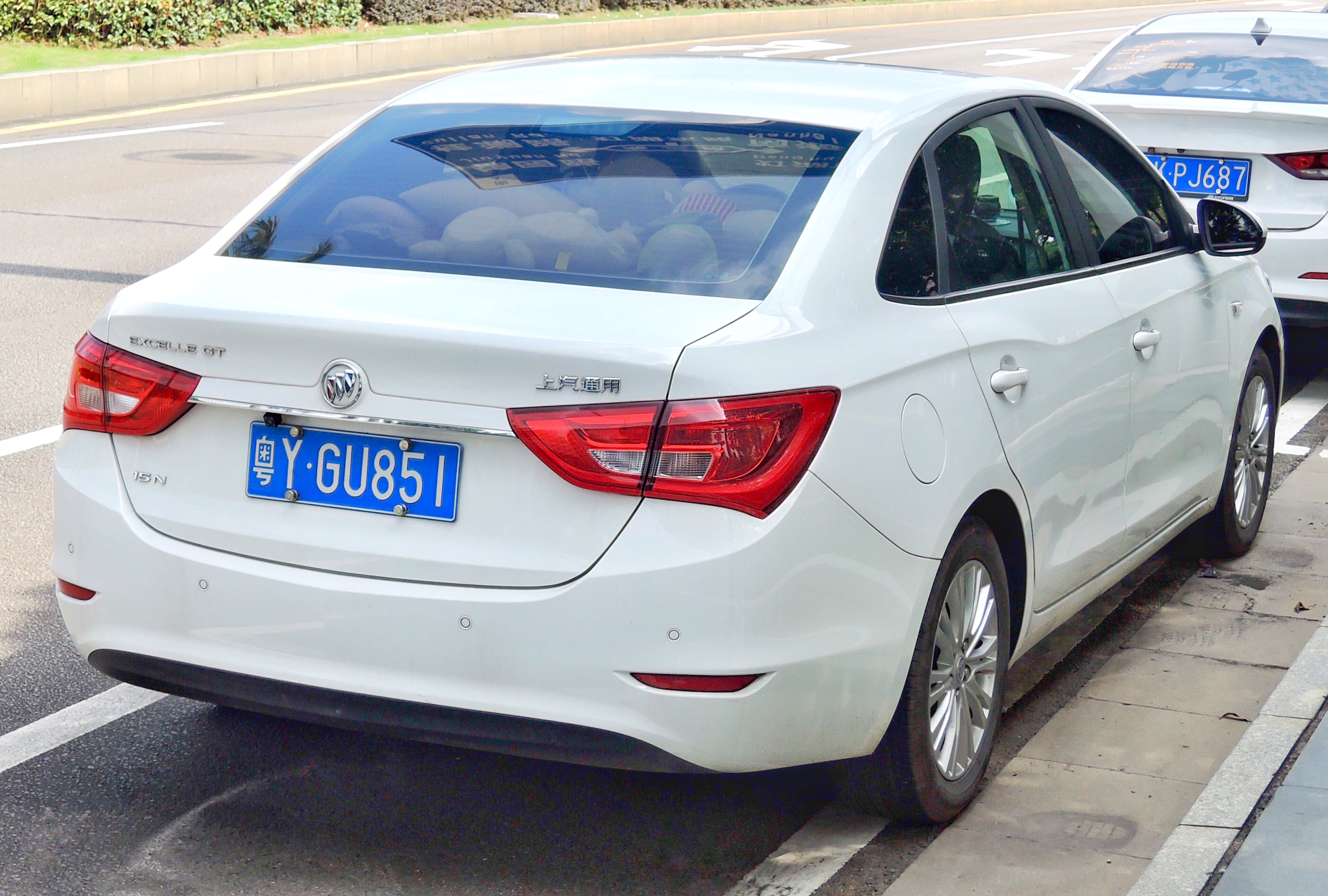 A 2015 Buick Excelle GT taken in Foshan, Guangdong province, China. 中文（中国大陆）: 一辆2015年的别克英朗GT，摄于中国广东省佛山市。